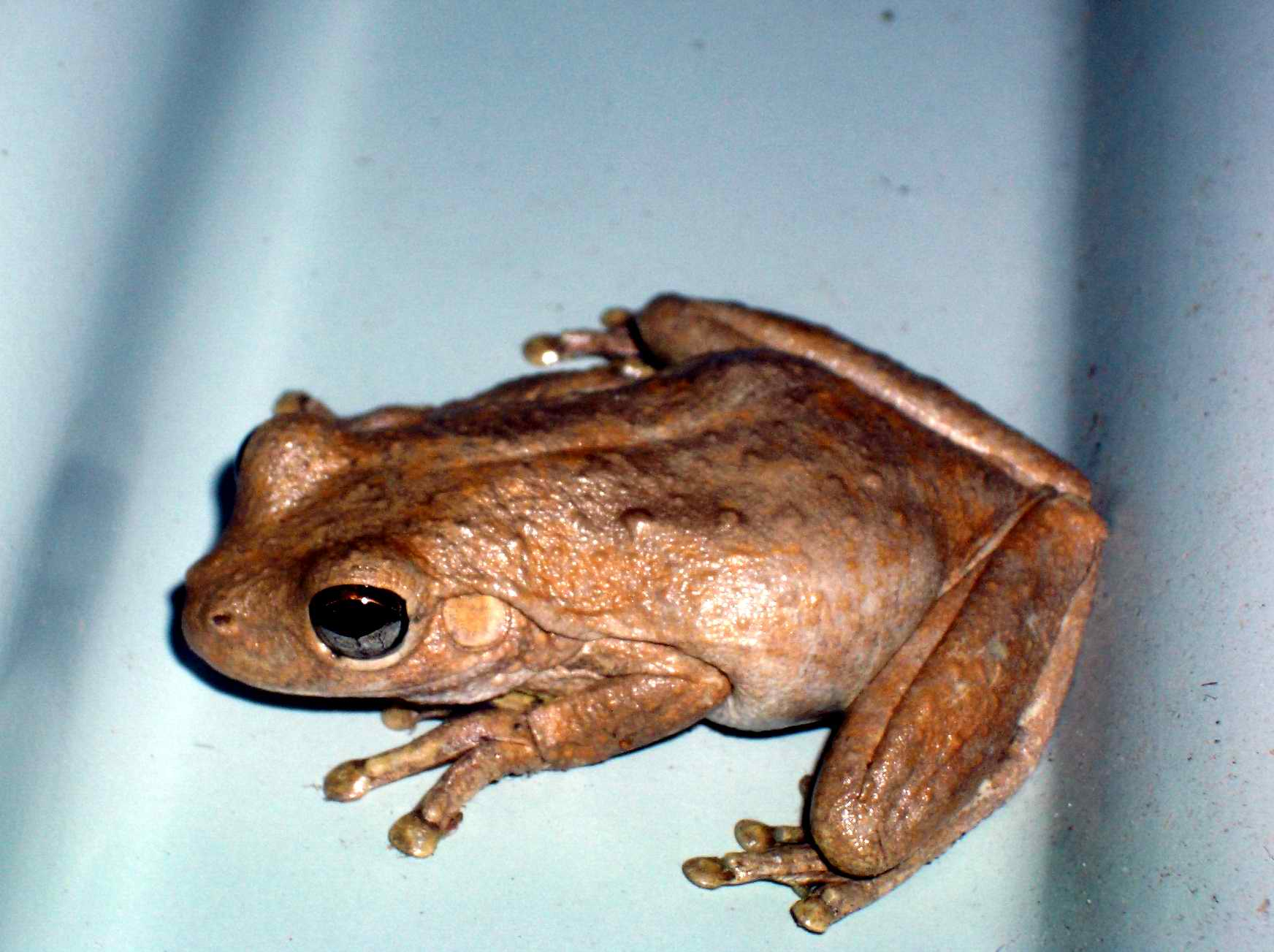 I took this photo of a Roth's Tree Frog (Litoria rothii) on the wall at my home near Cooktown, Queensland, Australia in 2005. John E. Hill 03:17, 20 November 2006 (UTC)